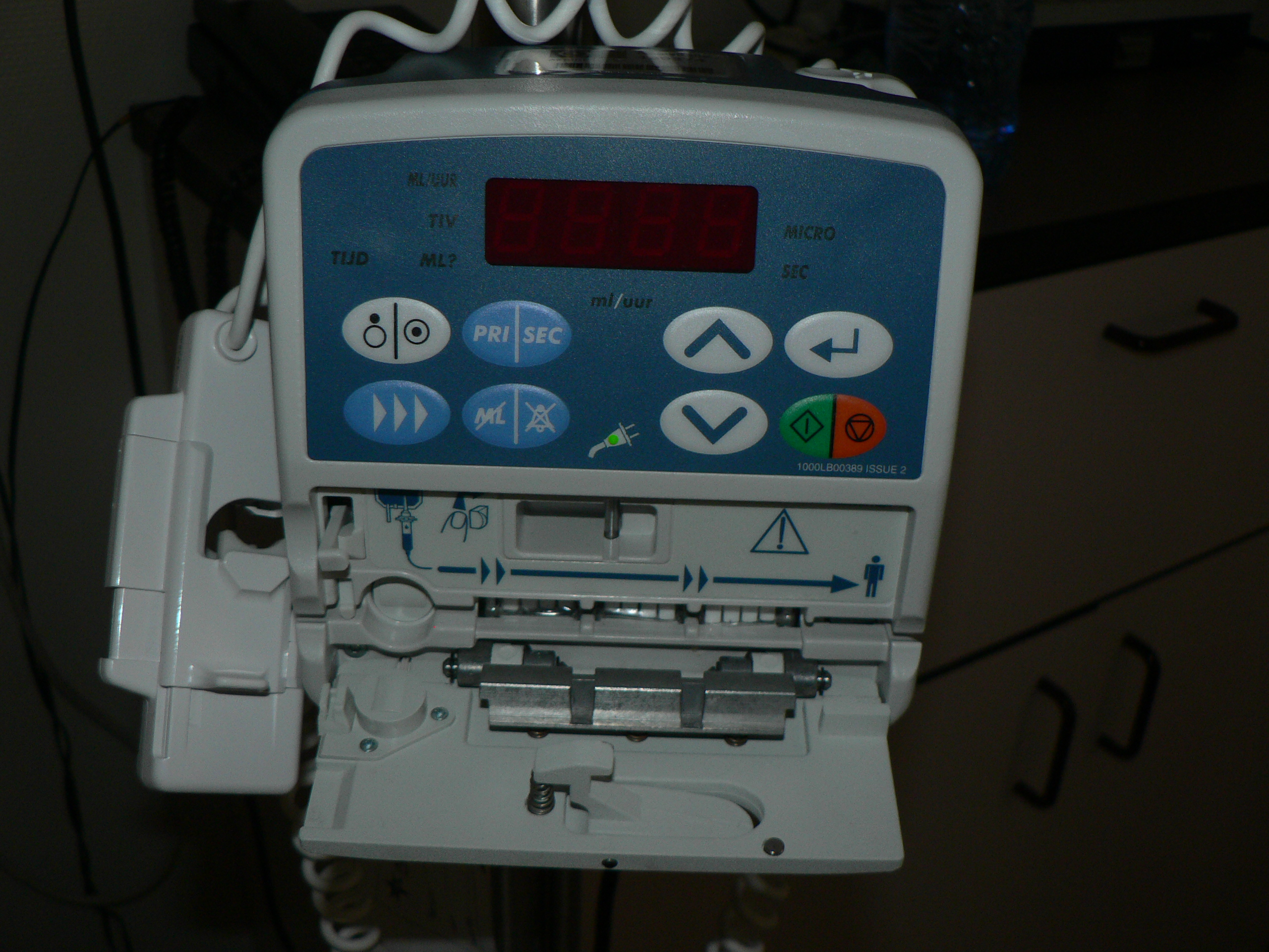 infusion pump